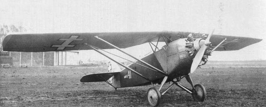 The training aircraft ANBO-III in Kaunas aerodrome.